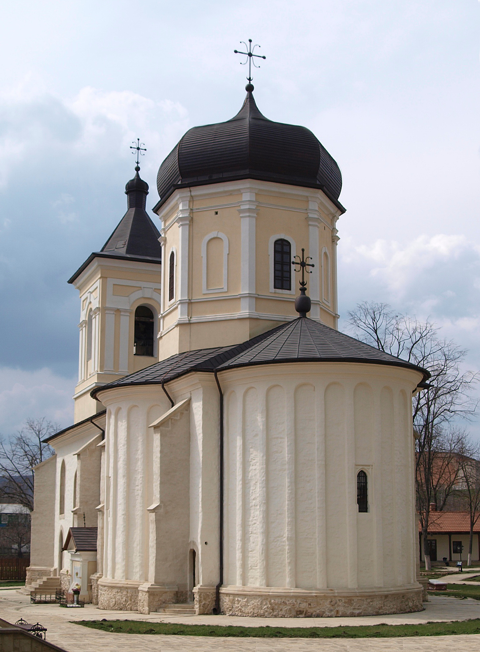 Photo of Capriana